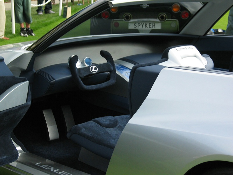 Lexus LF-C at the 2004 Pebble Beach Concours d'Elegance